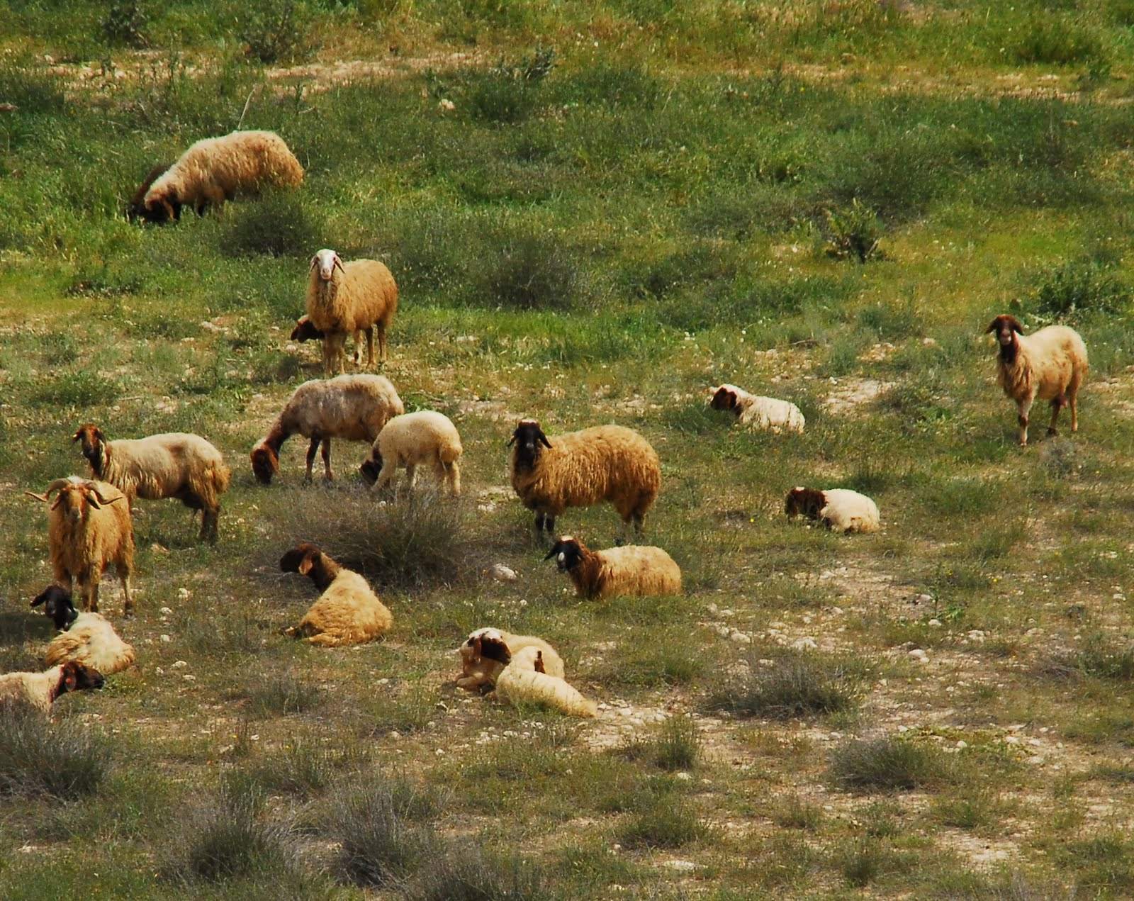 Agriculture in Israel